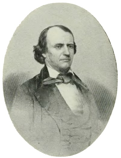 Illustration in History of Iowa From the Earliest Times to the Beginning of the Twentieth Century